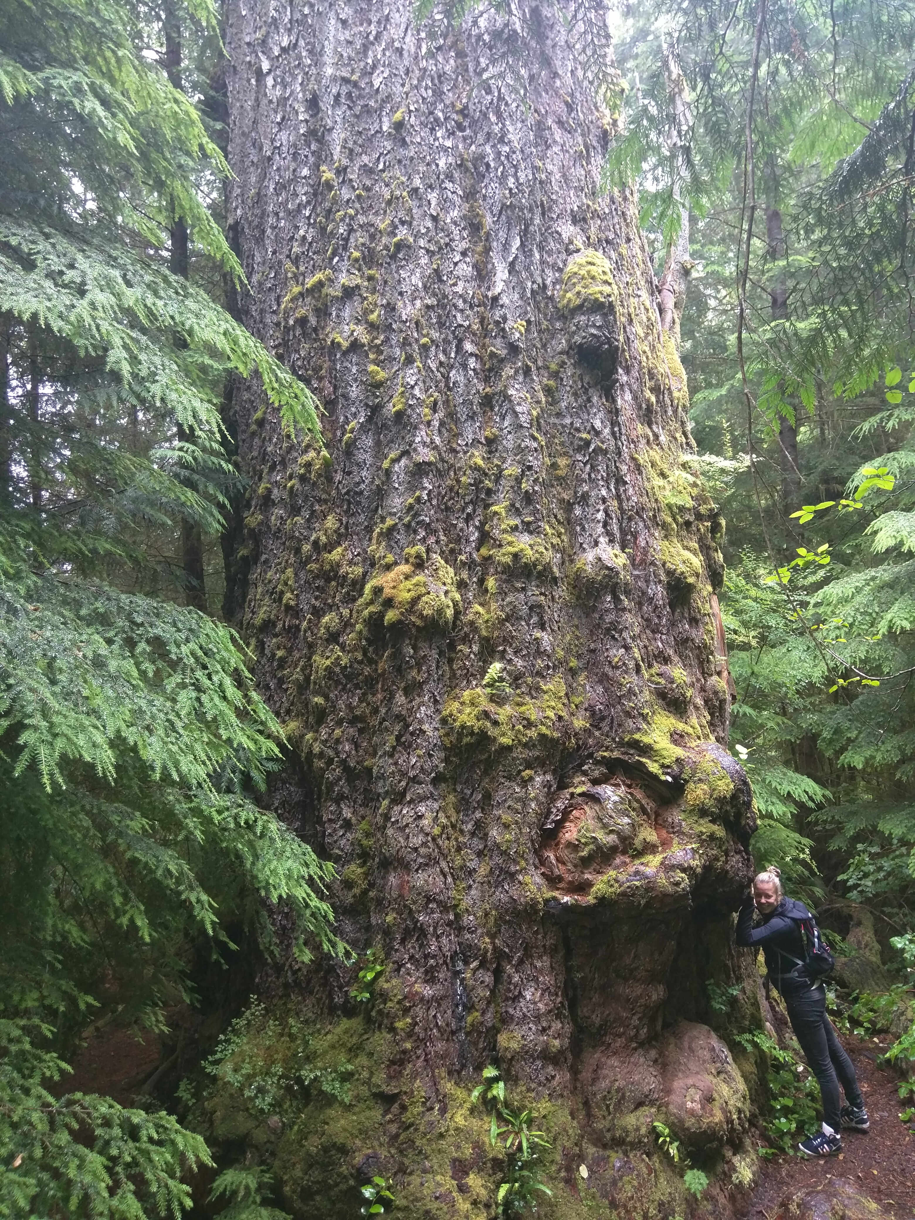 World's largest Douglas Fir still standing strong.